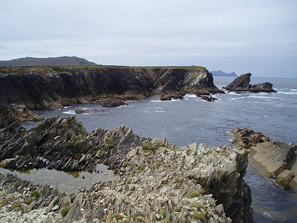 Rock formations. These steeply dipping rocks near Ferriter's cove are some of the oldest in the Dingle Peninsula.